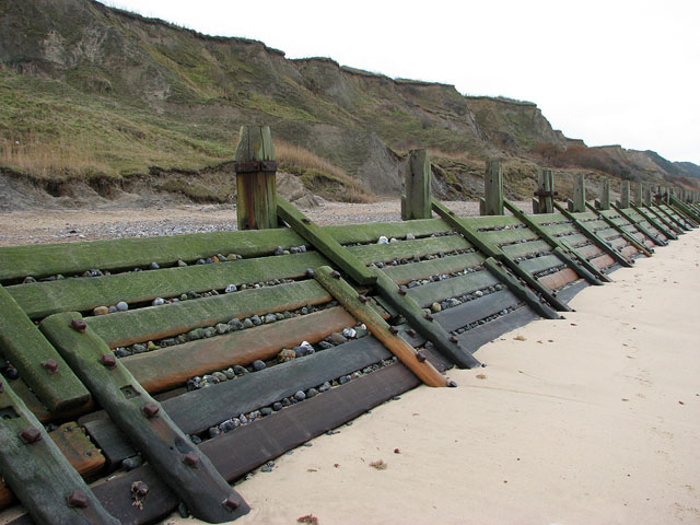 Sturdy revetments These wooden revetments were constructed to protect the cliff face beyond from wave action. The high cliffs here are not only eroded by wave action but also from the landward side, being undermined by underground springs which can be seen emerging from the cliff face. The soft boulder clay cliffs are slumping, because the spring water is running through and cutting deep grooves into the clay, making it unstable. Sea defences consist of arrangements of boulders, wooden groynes and a revetment. Trees were planted on the cliff face in the hope that their roots might hold together the soil but the trees appear to have been stolen and were not replaced